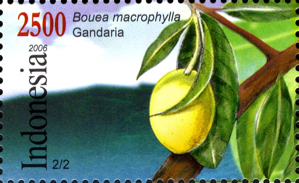 Stamps of Indonesia